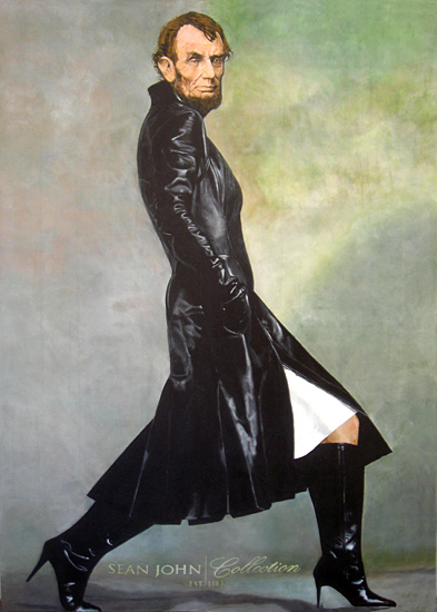 abe lincoln